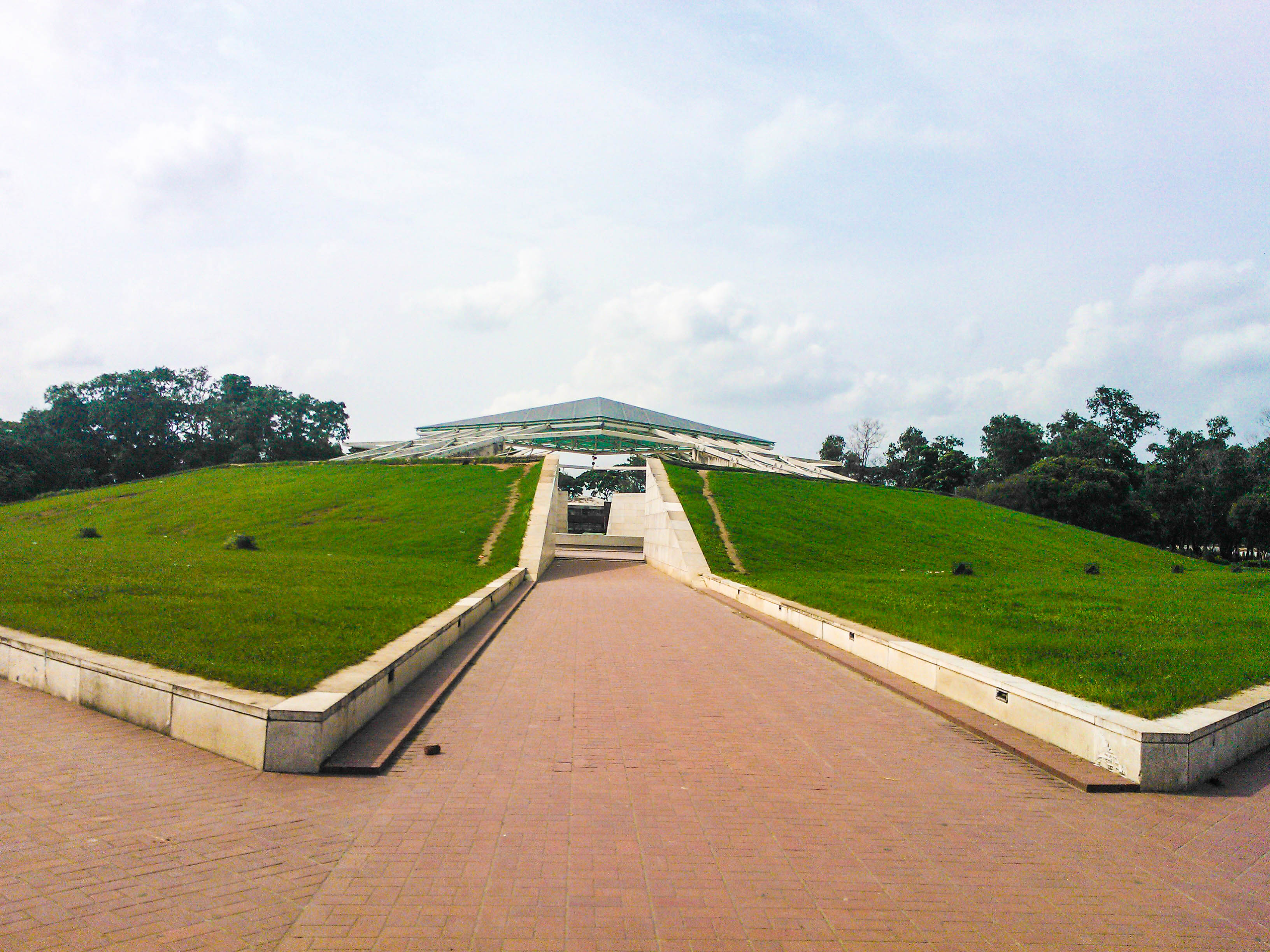 Mausoleum of late Bangladeshi President Ziaur Rahman in Dhaka.